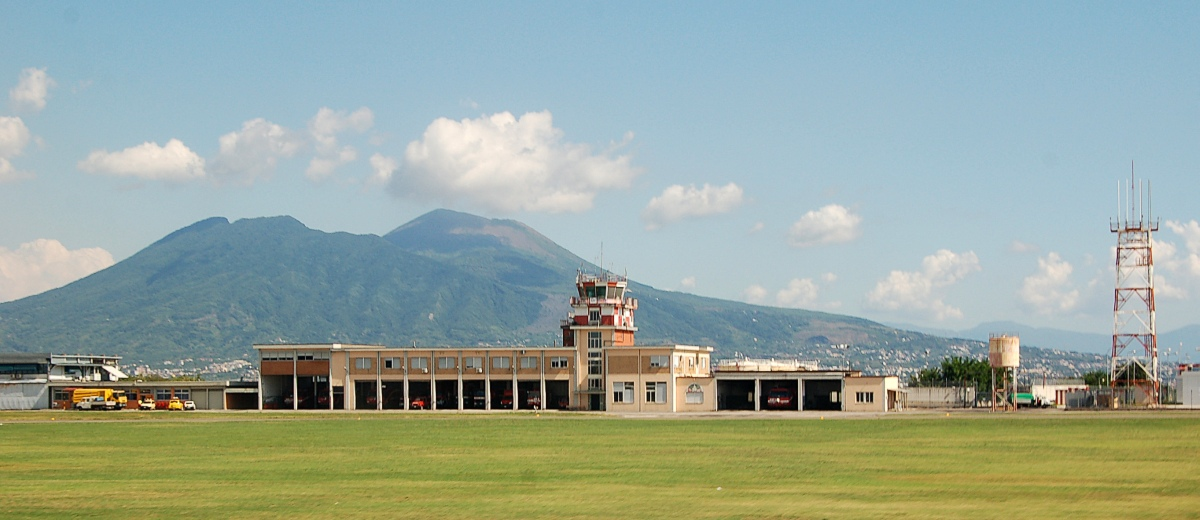 Naples 2010